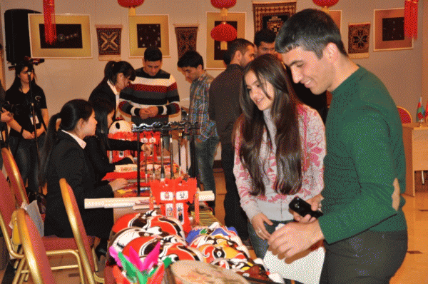 Opening ceremony of Khazar University Confucius Center